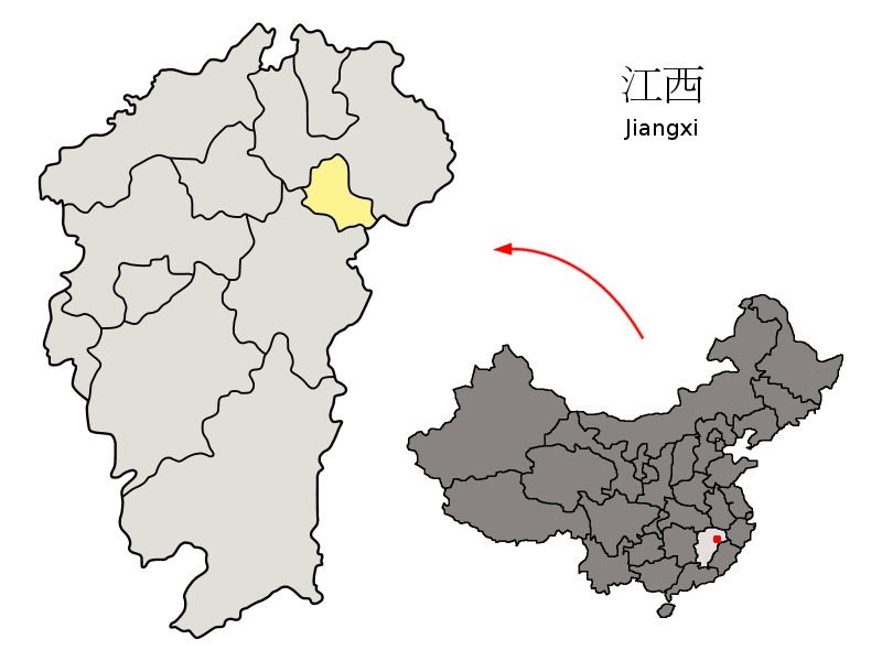 Location of Yingtan Prefecture (yellow) within Jiangxi Province of China Map drawn in december 2007 using various sources, mainly : Jiangxi Province administrative regions GIS data: 1:1M, County level, 1990 Jiangxi Counties map from